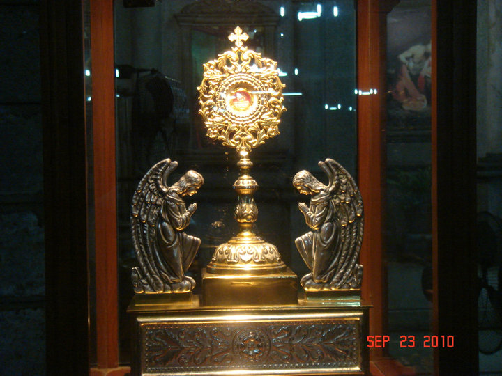 The first class relic of Morong Rizal Patron Saint, St. Jerome